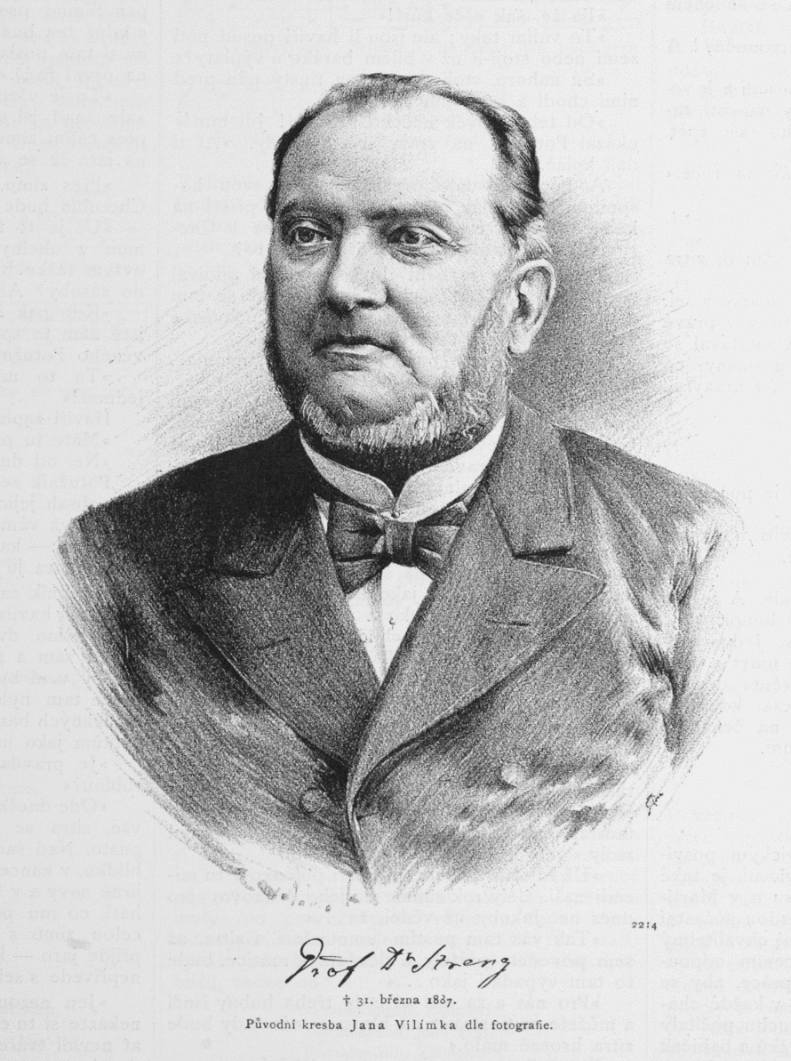 Portrait of Jan Streng (1817-1887), Czech gynecologist, professor of Charles University.